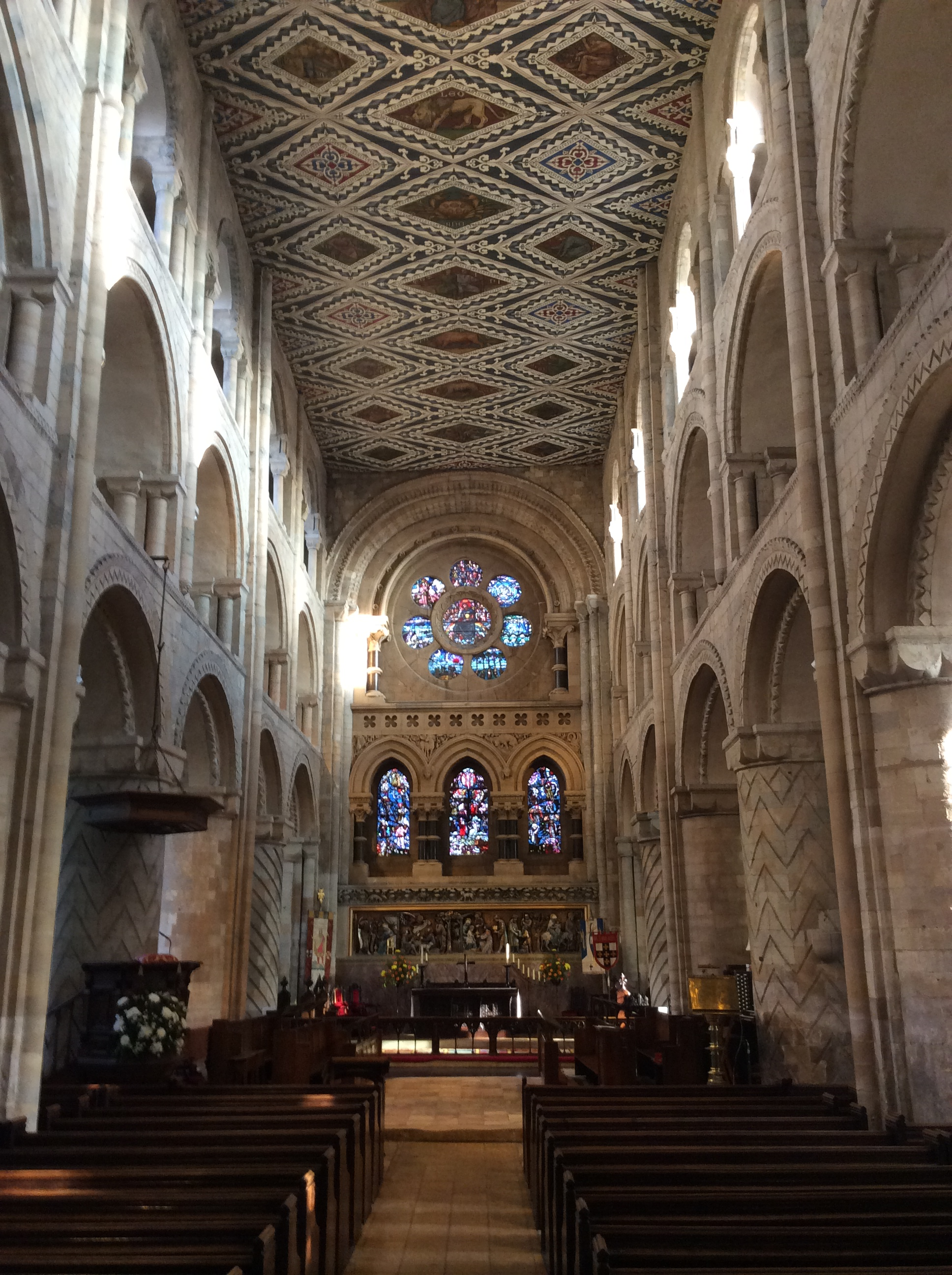 Waltham Abbey, Essex. East Wall and ceiling